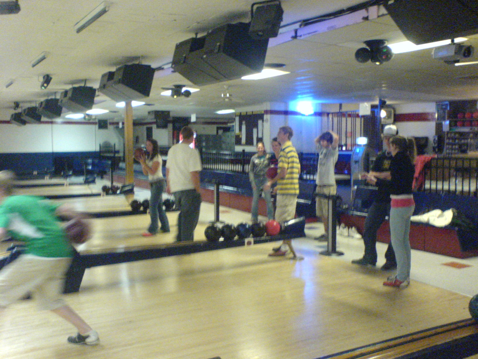 Youth at a bowling center